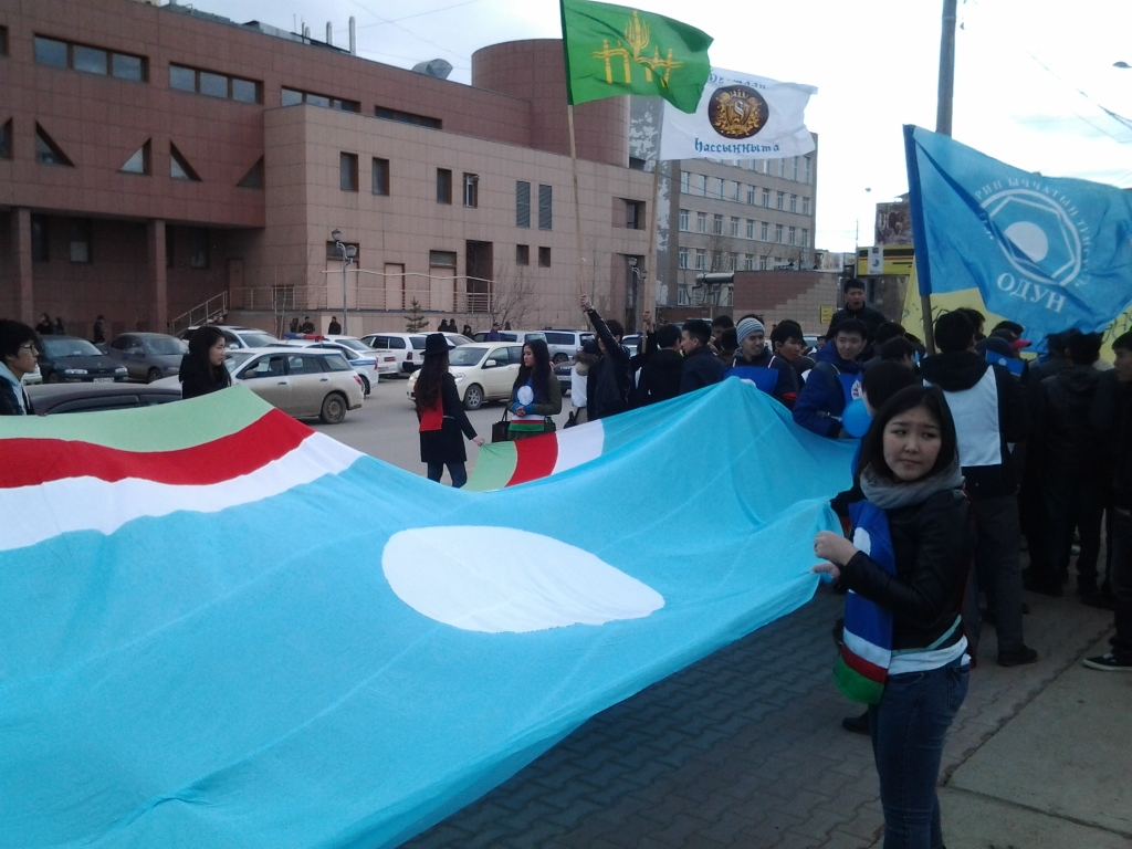 April 27, 2013. Yakutsk. Parade public, dedicated to the day of the statehood of the Republic.